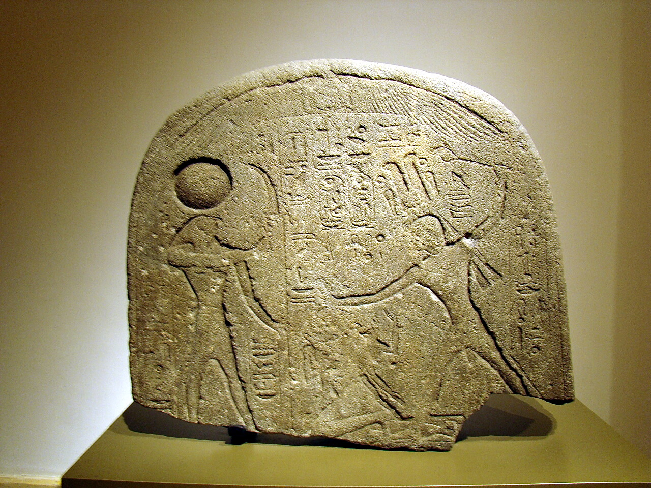 Stone stele by Ramses II founded in Byblos (Phoenicia). Beirut National Museum